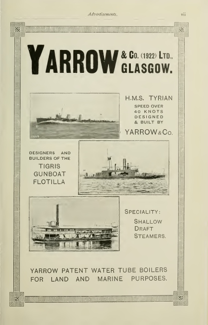 Advertisement for Yarrow Shipbuilders in Brassey's Naval Annual 1923, mentioning the S class destroyer HMS Tyrian, Tigris gunboats and shallow draft steamers, built by Yarrow.